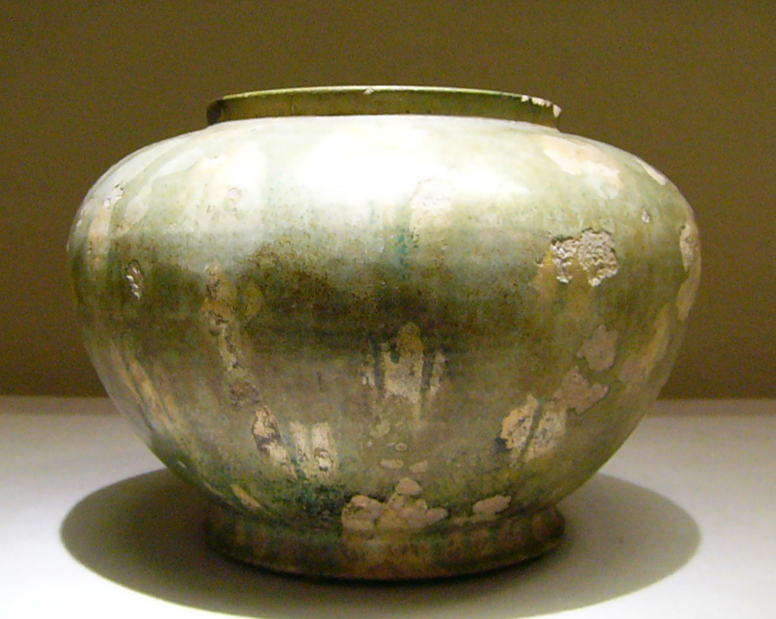 Ceramic Jar, Three Coloured Glaze, 8th century, Nara, Japan height 17.5cm, Osaka Municipal Museum, Osaka, Japan